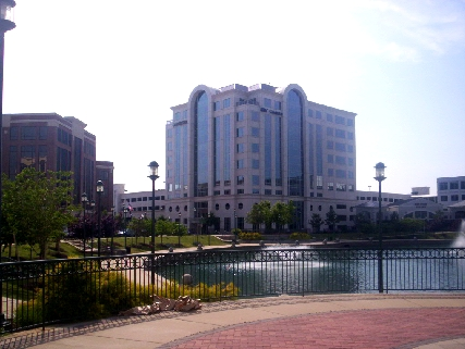 The new City Center development in the Oyster Point area of Newport News, Virginia. This picture was taken June, 2006 by Durrock Knox.